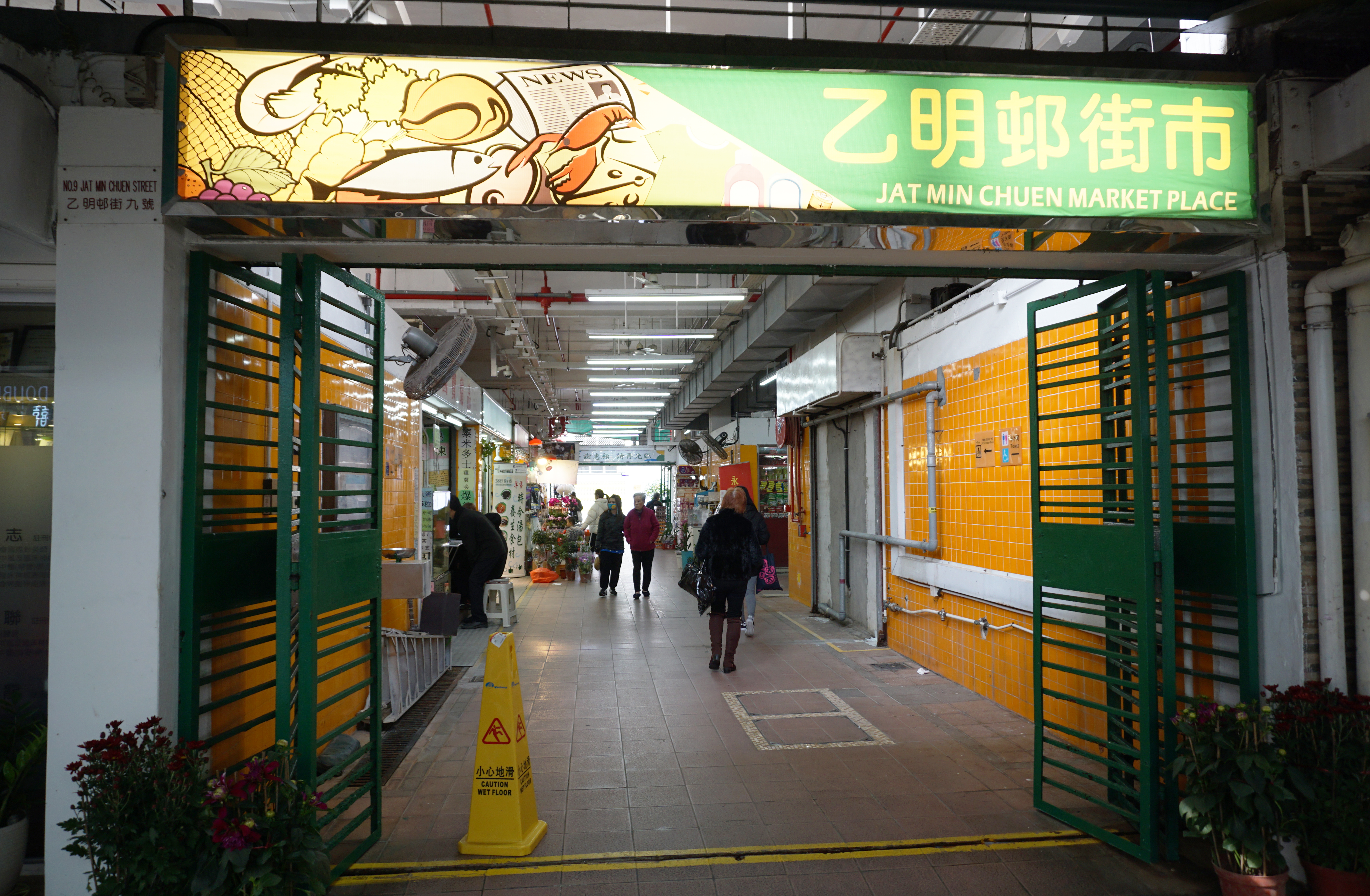 Jat Min Chuen Market Place in Sha Tin Wai, Hong Kong.